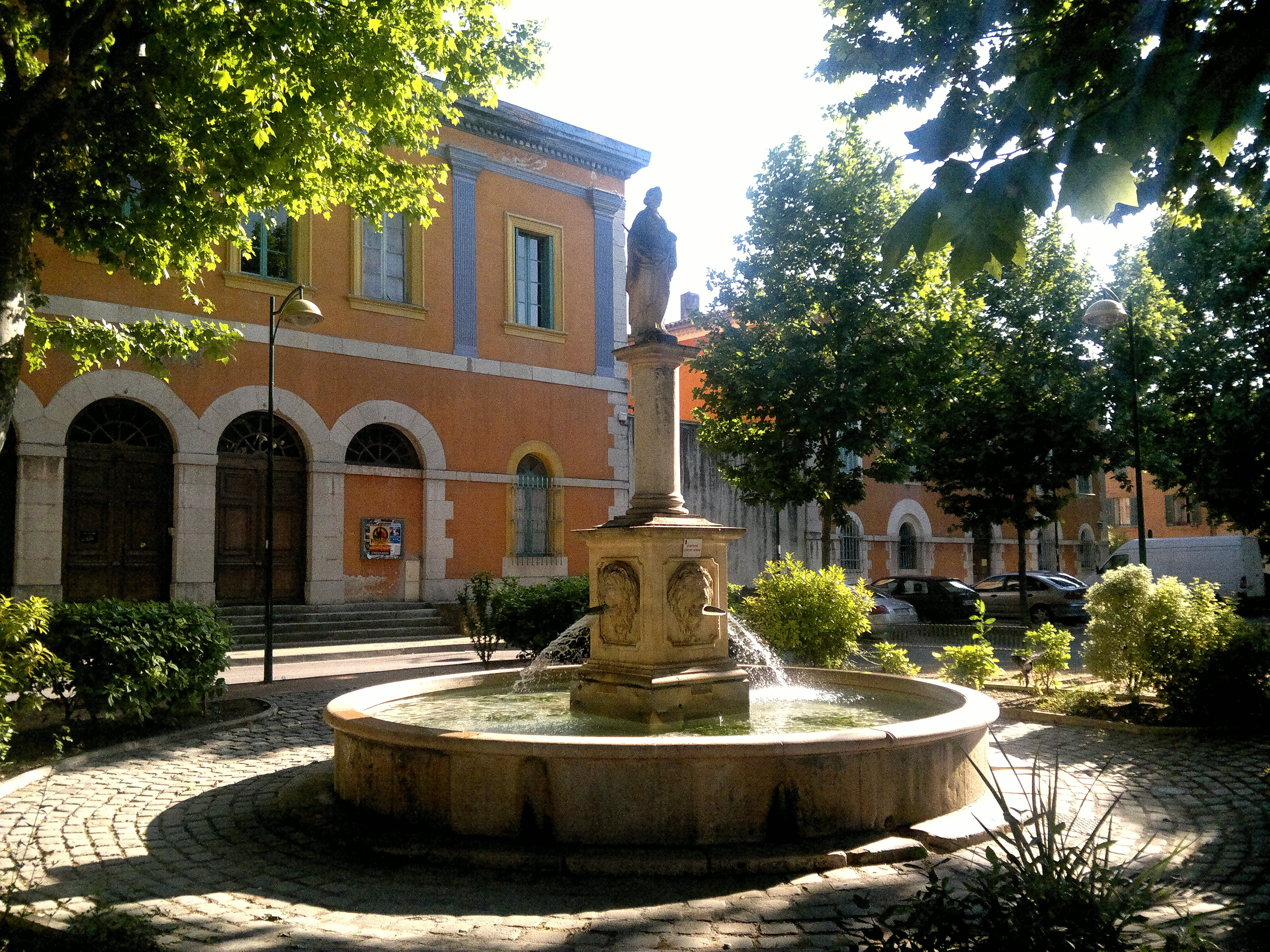 Brignoles the fountain City Centre